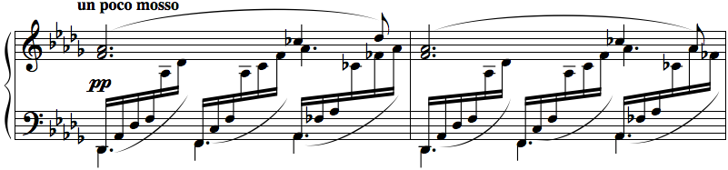 Excerpt from Clair de Lune of Claude Debussy's Suite bergamasque for solo piano. Copyright expired.